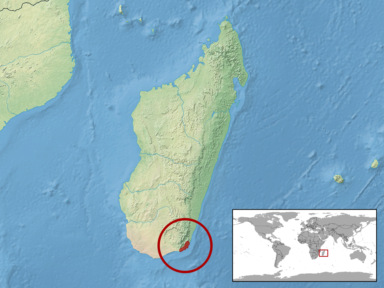 geographic distribution of Amphiglossus decaryi